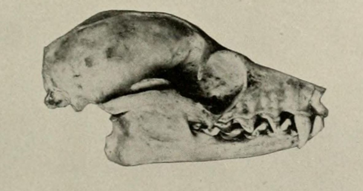 Illustration of the skull of the giant golden-crowned flying fox. This was labeled as the subspecies A. jubatus lucifer